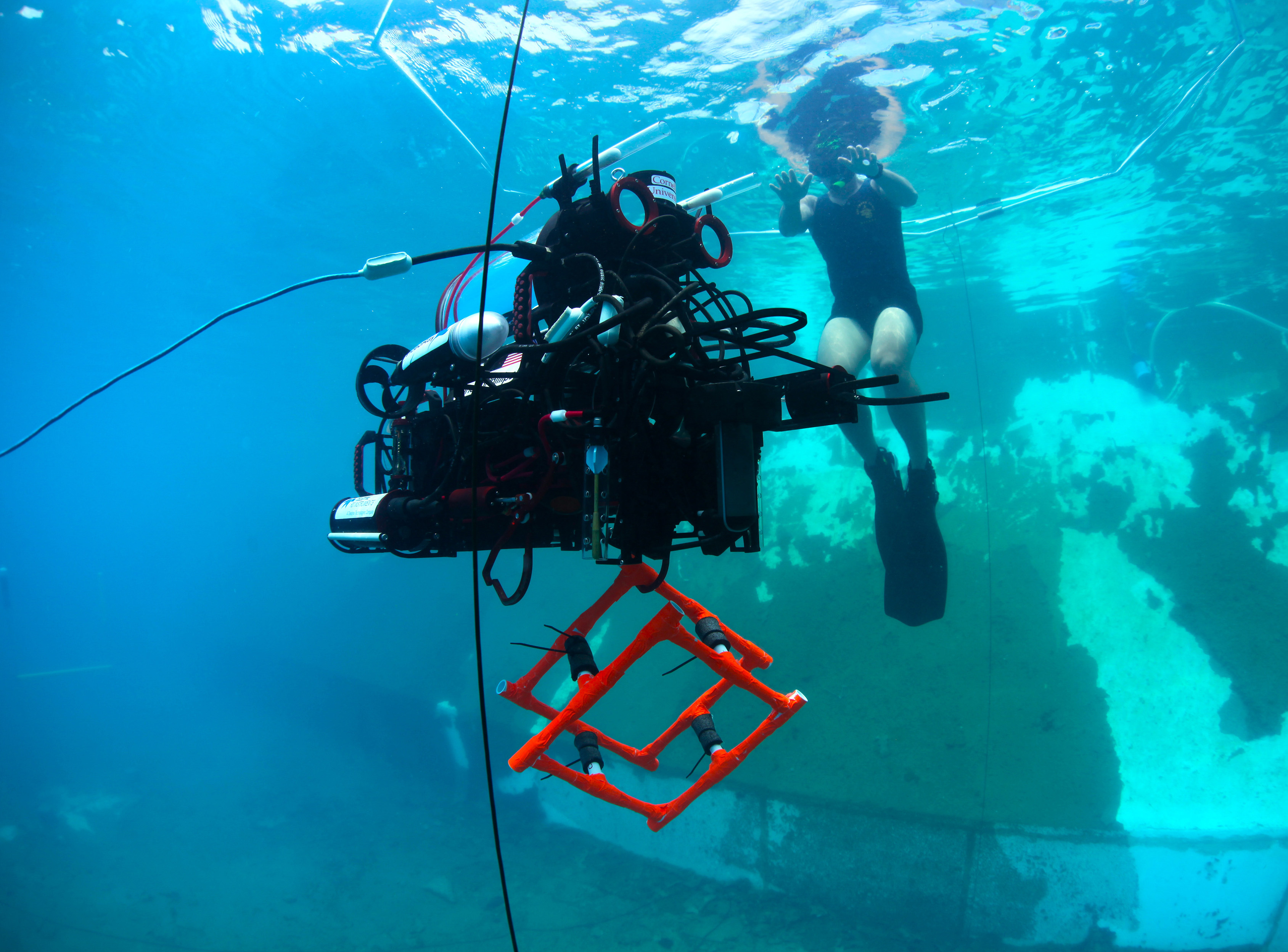 U.S. Navy Diver 2nd Class Andrew Bui, with Space and Naval Warfare Systems Center Pacific, recovers an autonomous underwater vehicle (AUV) built by students from Cornell University after navigating through an obstacle course at the Transducer Evaluation Center's anechoic pool in San Diego July 24, 2013, during RoboSub 2013. RoboSub is an annual event co-sponsored by the Association for Unmanned Vehicle Systems International Foundation and the U.S. Office of Naval Research to advance the development of AUVs.